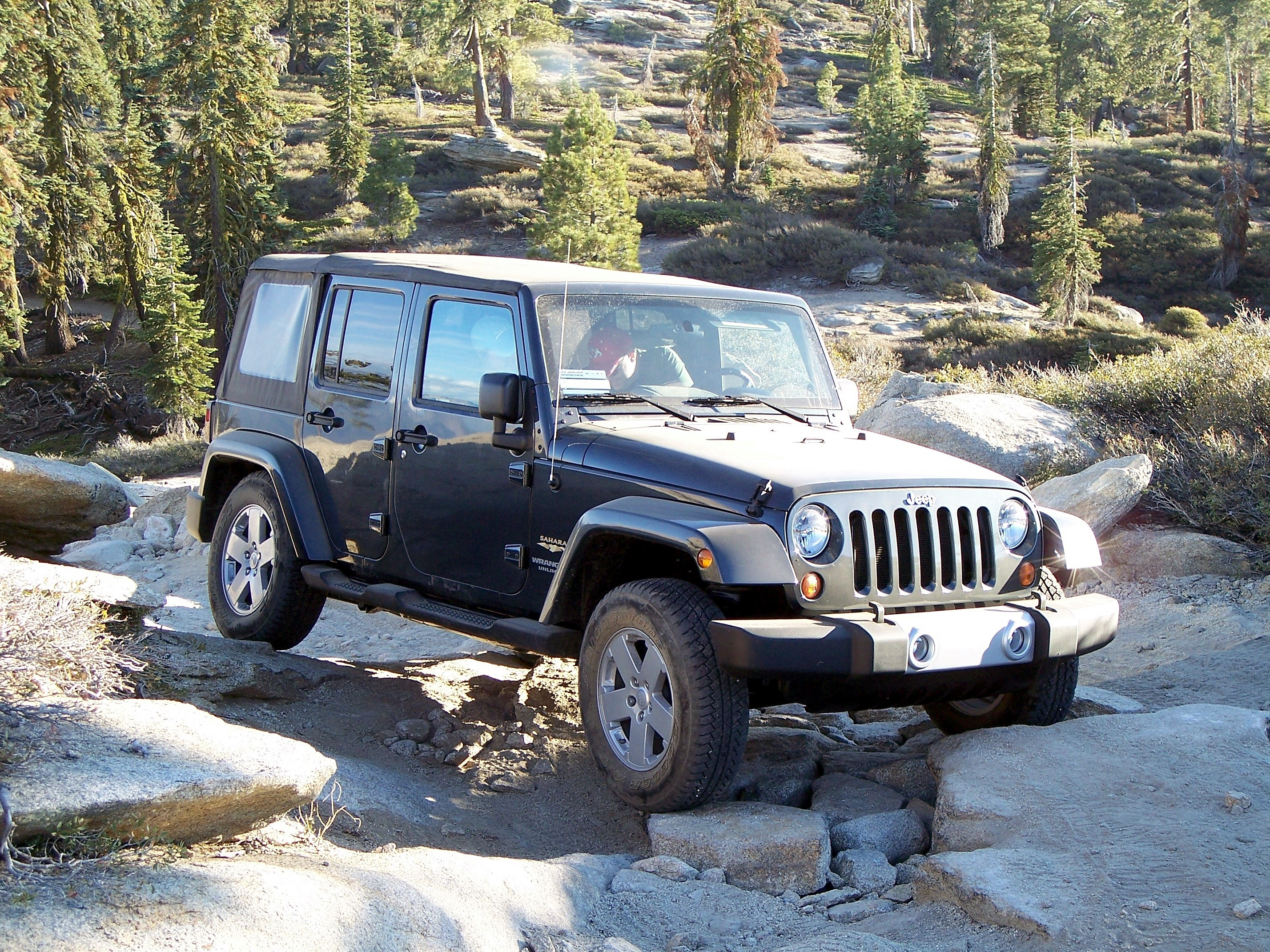 Stock 2008 Jeep Wrangler Unlimited Sahara